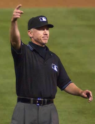 Umpire Lance Barksdale ejects Arizona Diamondbacks manager Bob Melvin